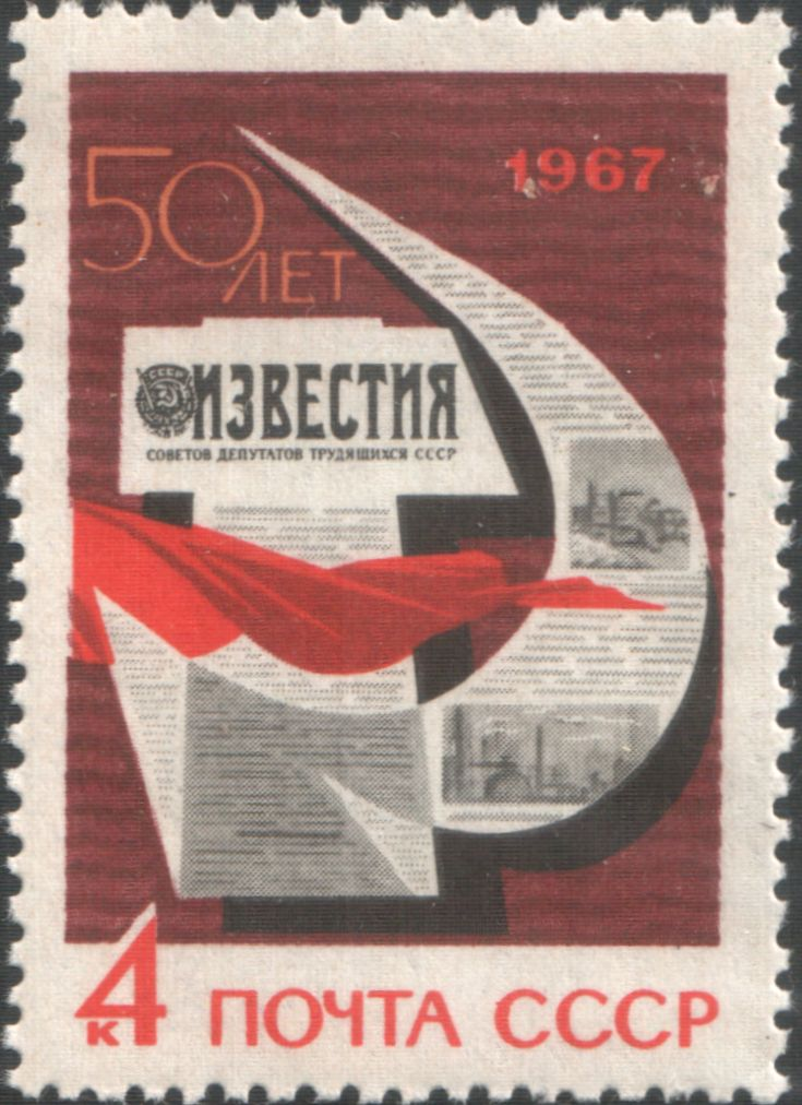 USSR stamp: Newspaper “Izvestia”, Forming Hammer and Sickle, Red Flag. Series: 50th Anniversary of Newspaper “Izvestia” (since 1917.03.13)